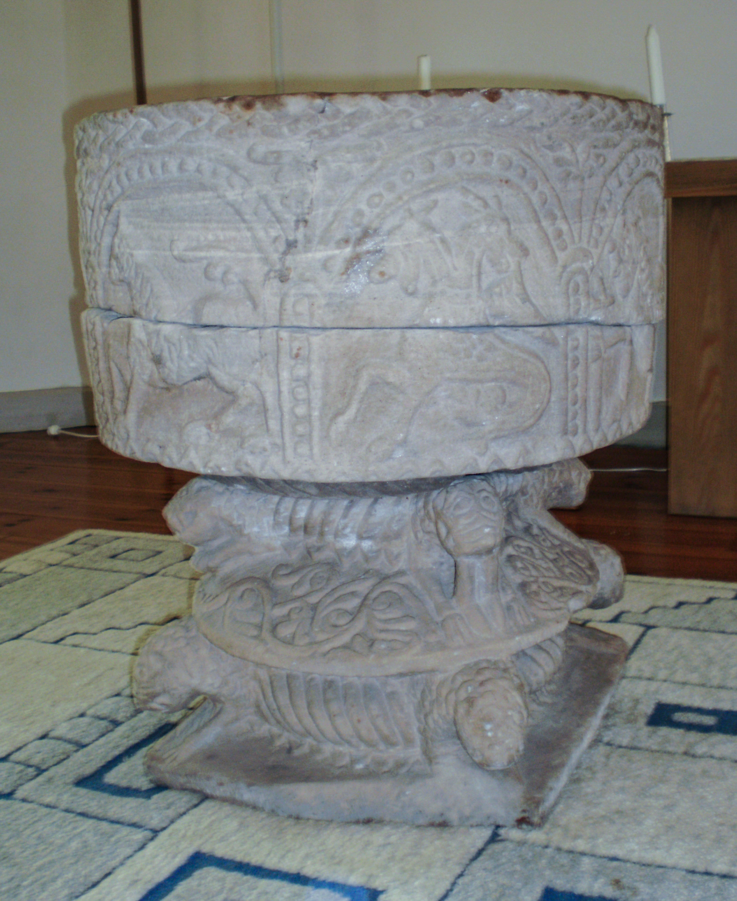 Dädesjö new church